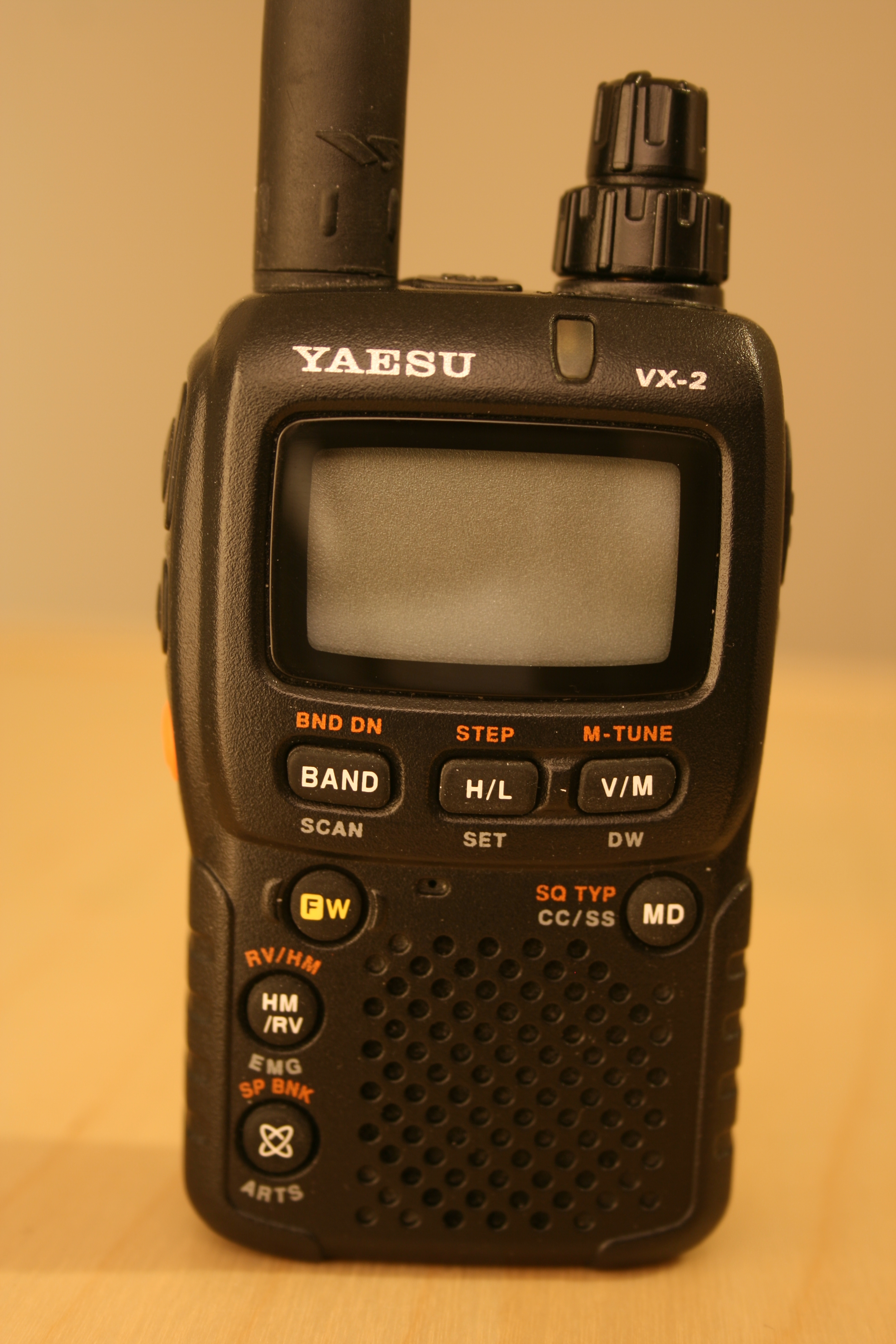 Yaesu VX-2R handheld amateur radio transceiver.